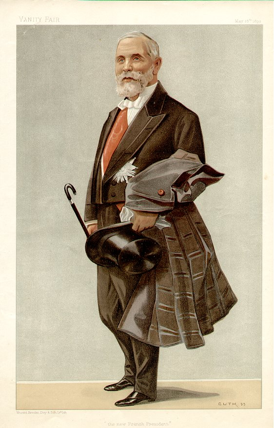 Caricature of Émile Loubet. Caption read "the new French President.